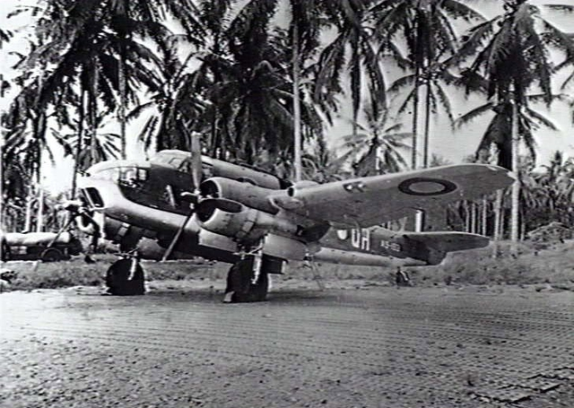 Milne Bay, Papua. Bristol Beaufort bomber no. A9-193 of No. 100 Squadron RAAF on the strip at Gurney Airfield. Painted on the nose section of the aircraft is a cartoon of a torpedo breaking a Japanese ship in half. The aircraft was flown by Pilot Officer K. Waters and Corporal Collins.